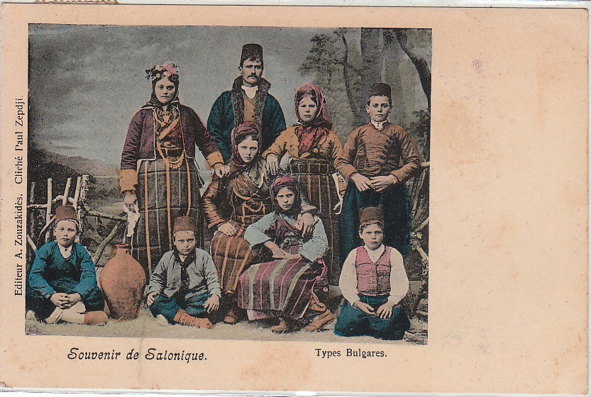 Salonica Bulgarians by Paul Zepdji